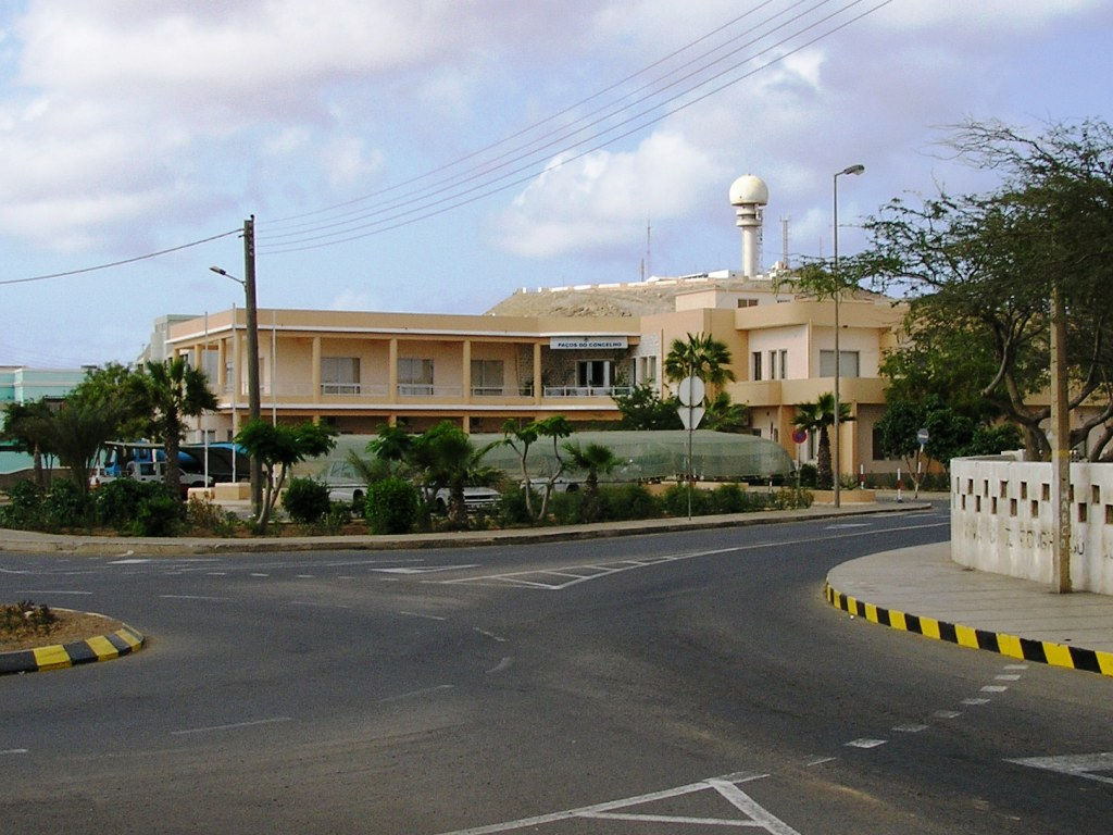 Espargos town hall, Sal island, Cape Verde